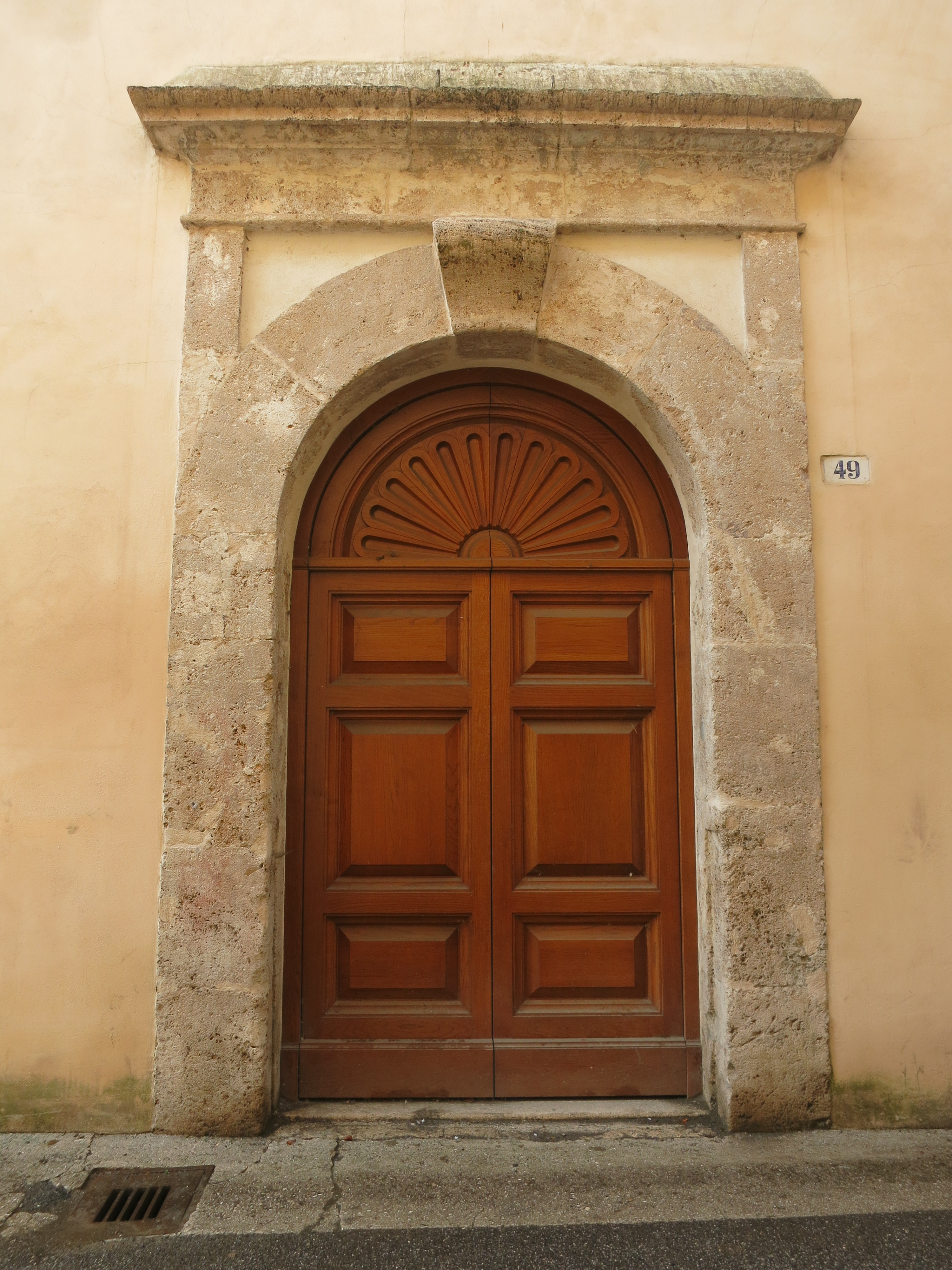 Former Saint George church - Rieti, Lazio, Italy